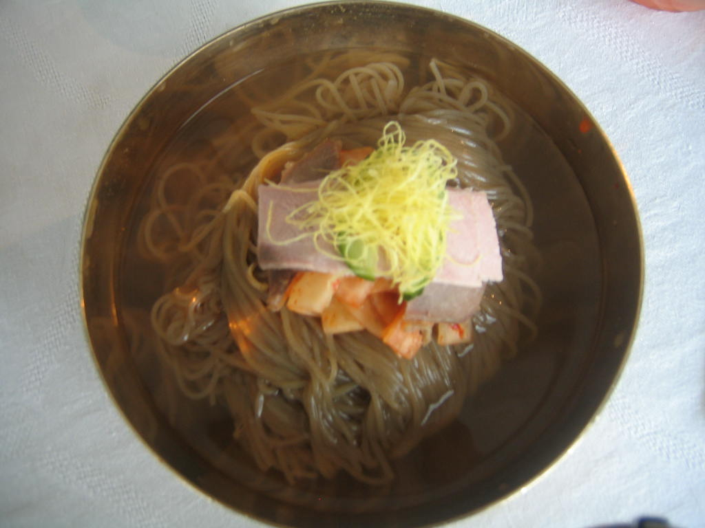 Cold Noodles at Famous Okryu Restaurant